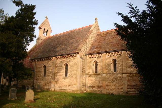 St.Lucia's church, Dembleby Norman revival by C.Kirk of Sleaford, built 1867-8